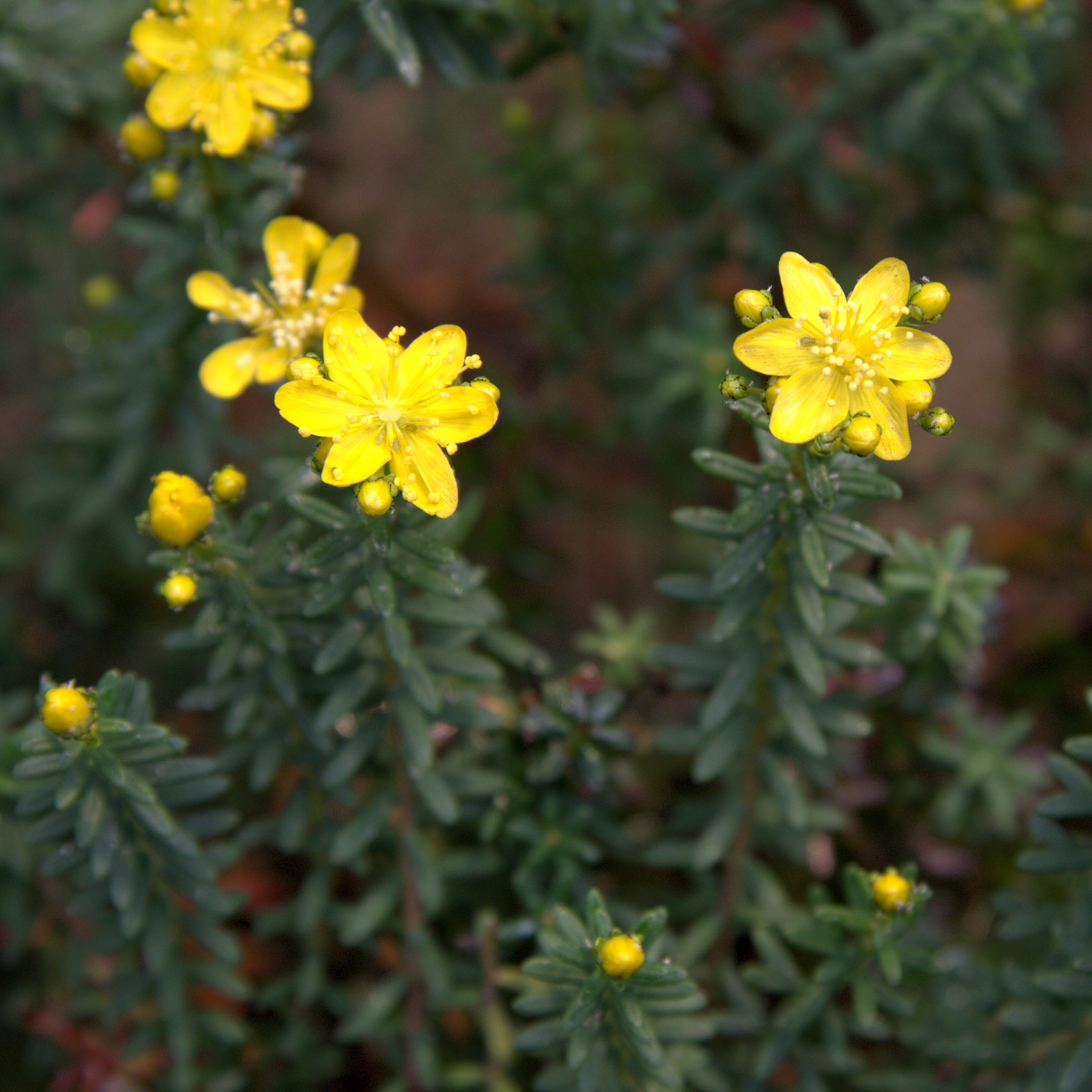 Hypericum empetrifolium var. oliganthum